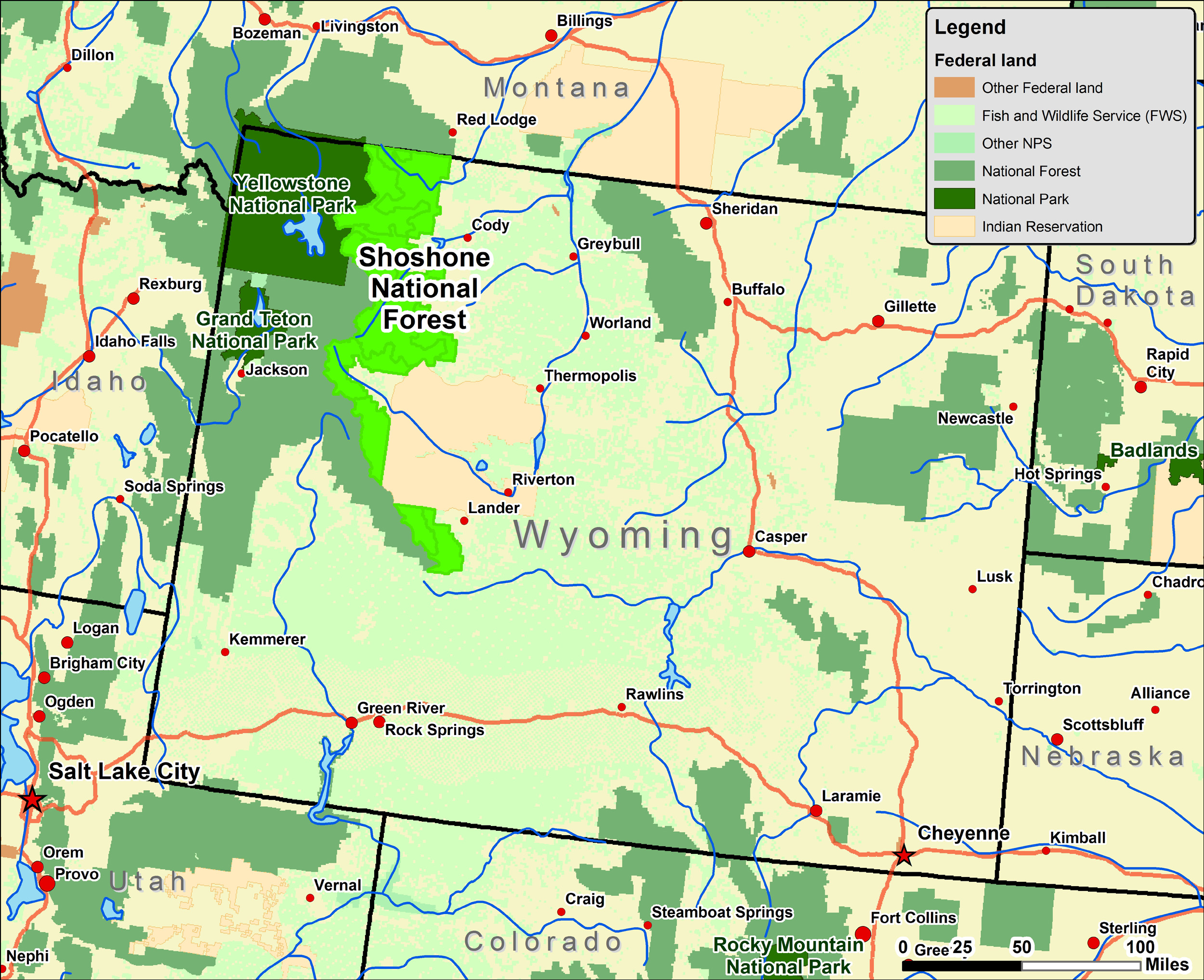 Map of Wyoming showing the location of Shoshone National Forest. Created by Kmf164 using ArcGIS and public domain, U.S. government GIS data sources.